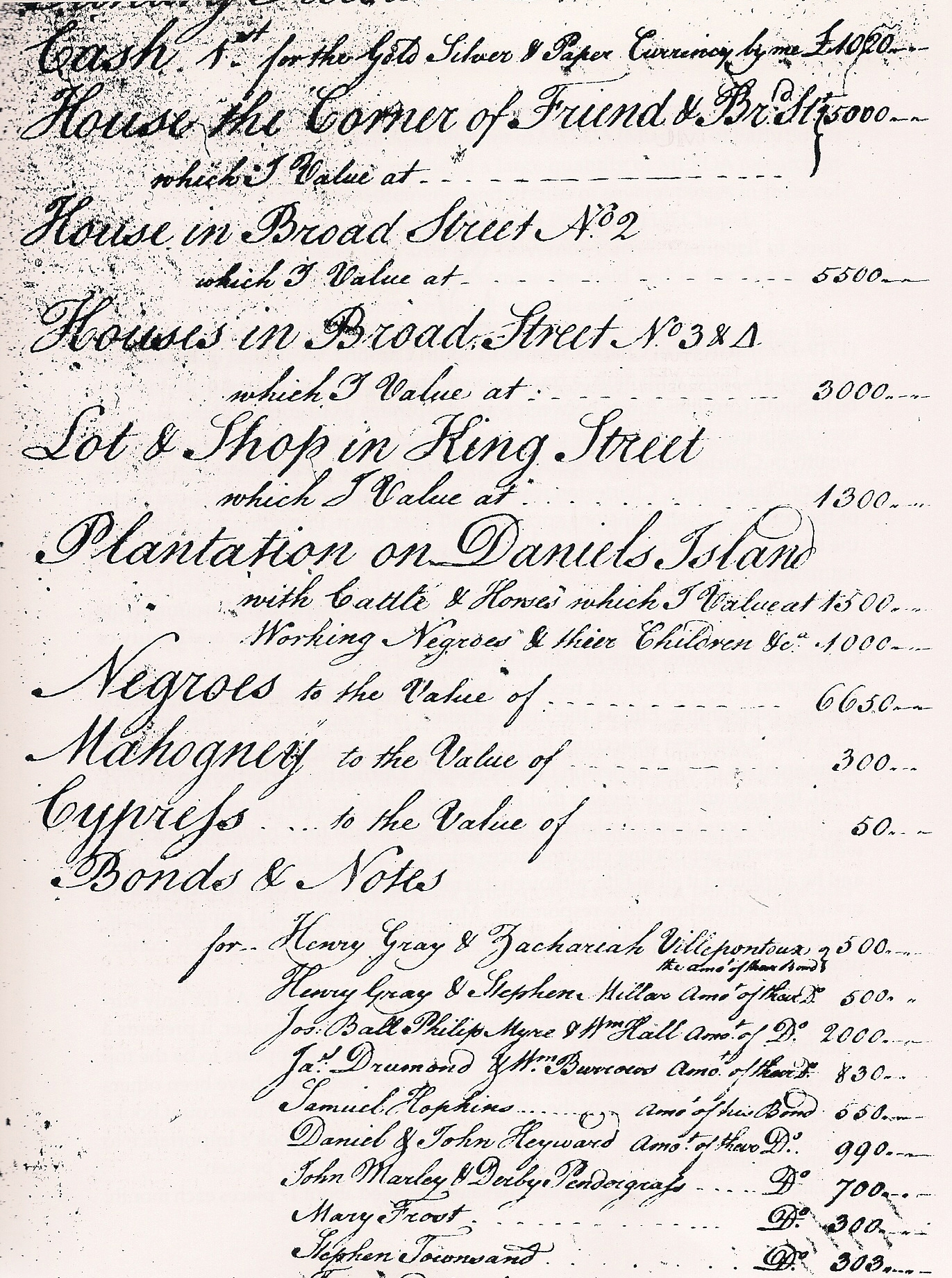 Thomas Elfe Will of 7 July 1775 from Charleston County (S.C.) "Wills, etc." No. 18 1776-1784. "The Inventory of the Estate of Thomas Elfe" - 11 September 1776. Volume 99A (p. 116), 1776-78.